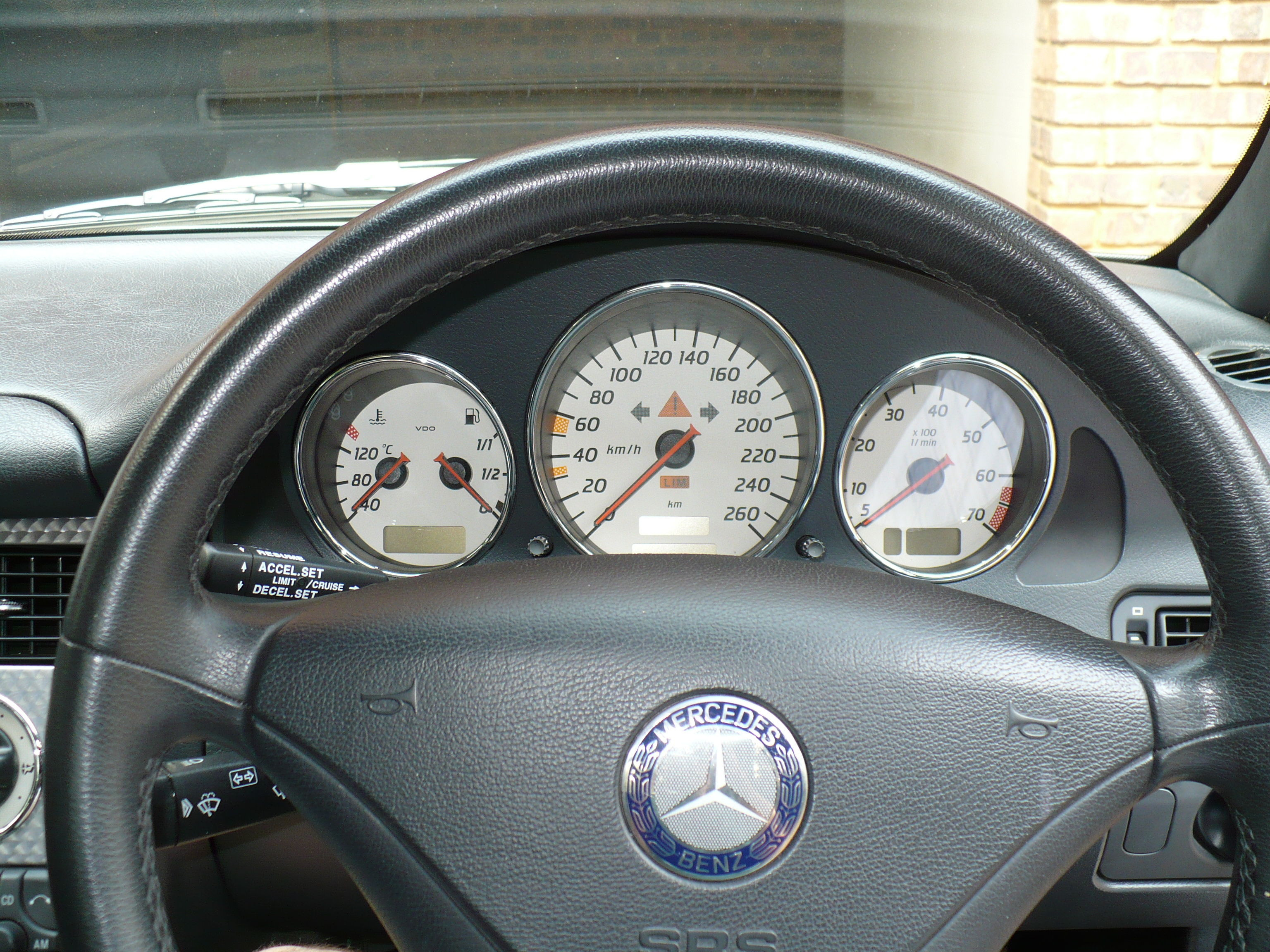 My 2004 Mercedes SLK 200K's dash/"speedometer-cluster"